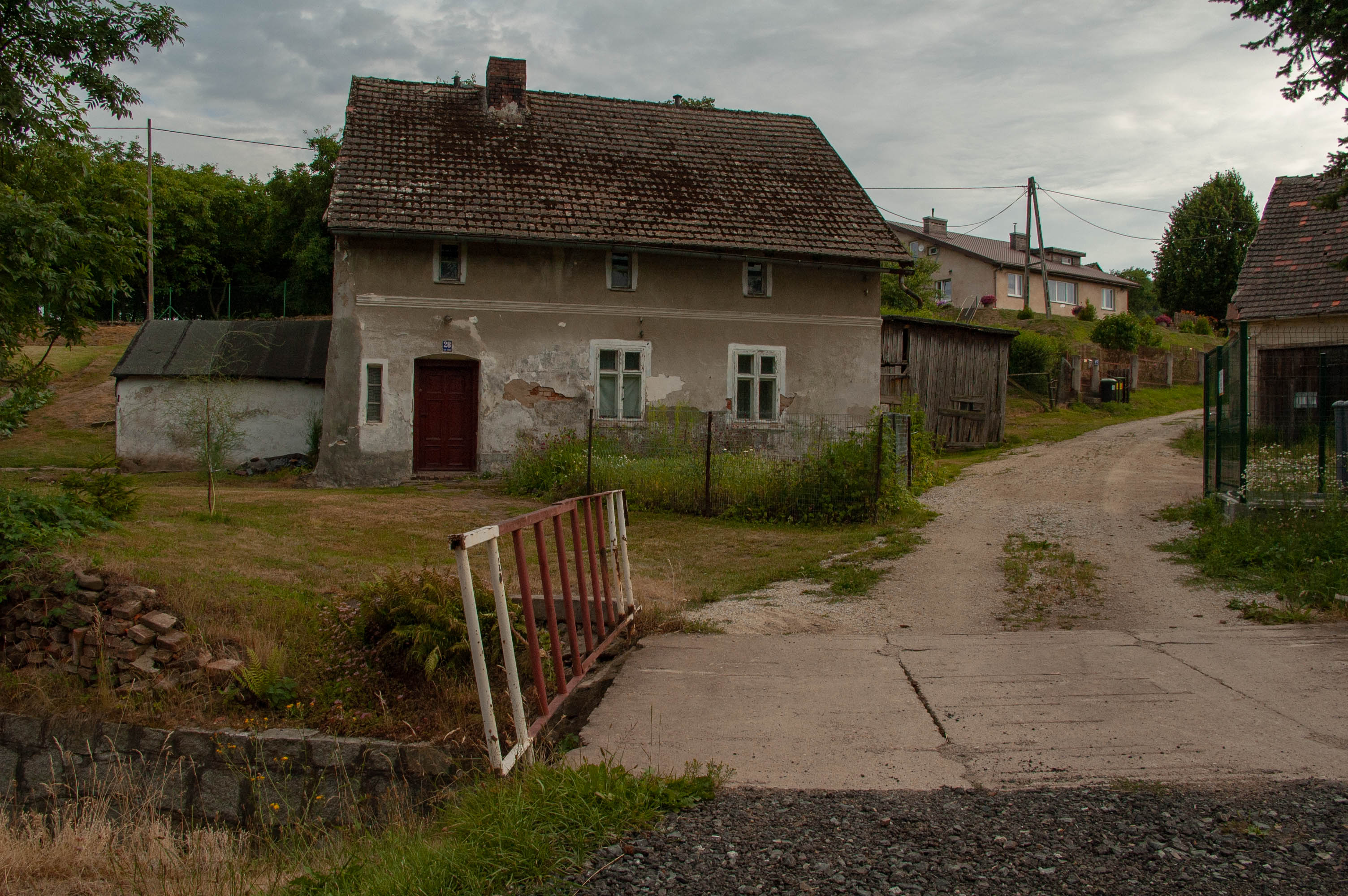 This photograph was created as a part of Wikiexpedition Lower Silesia, a project supported by Wikimedia Poland grant.